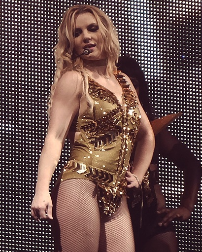 Britney Spears Femme Fatale Tour Live Rio de Janeiro, Brazil